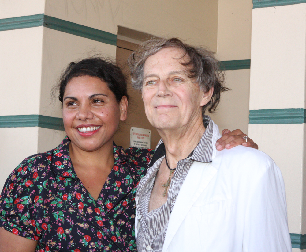 Movie Walk Of Fame At Randwick Ritz; The Spot Festival - film, foodies and more